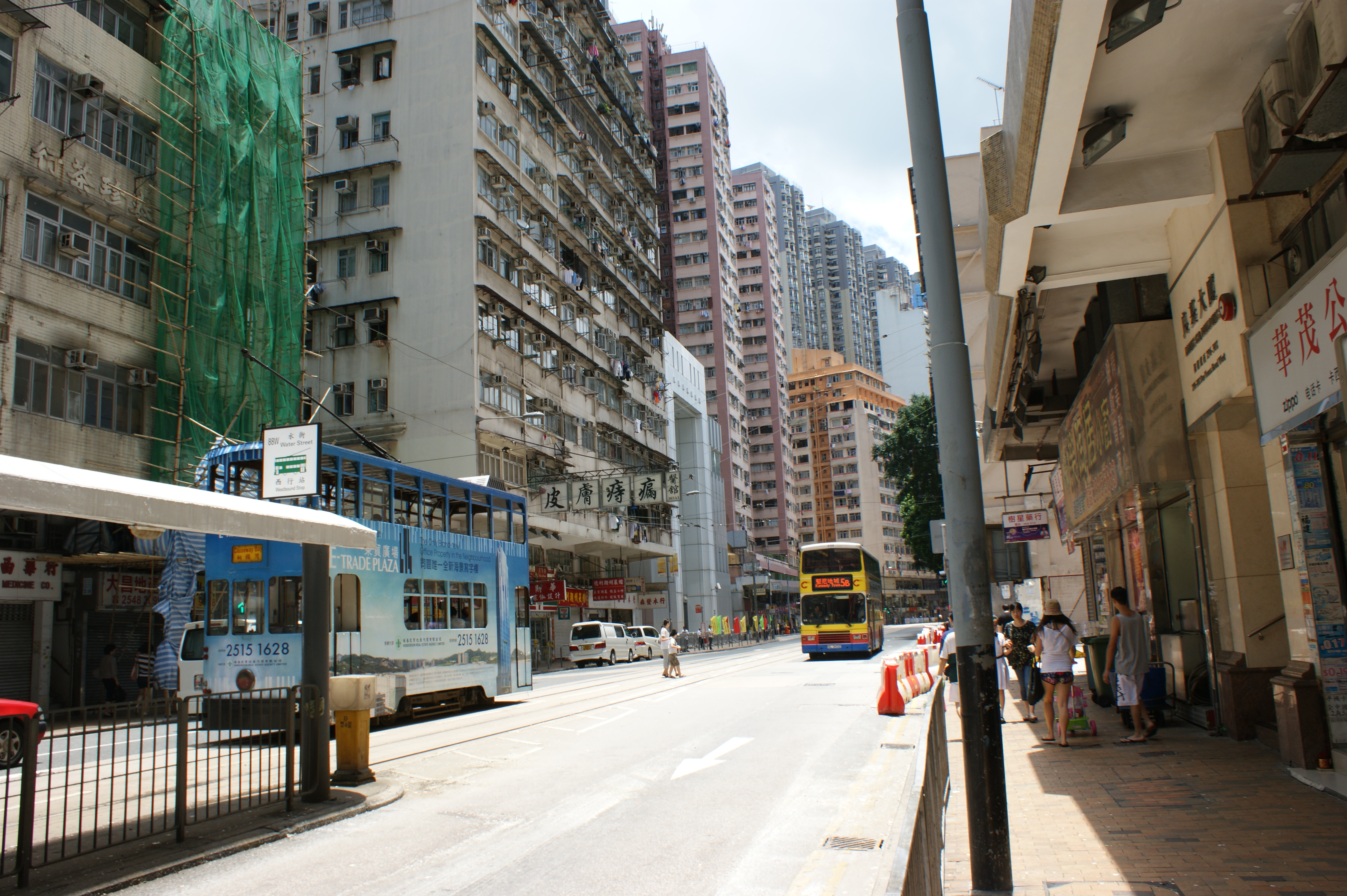 中文（香港）: Des Voeux Road West at Chiu Kwong Street Sai Ying Pun